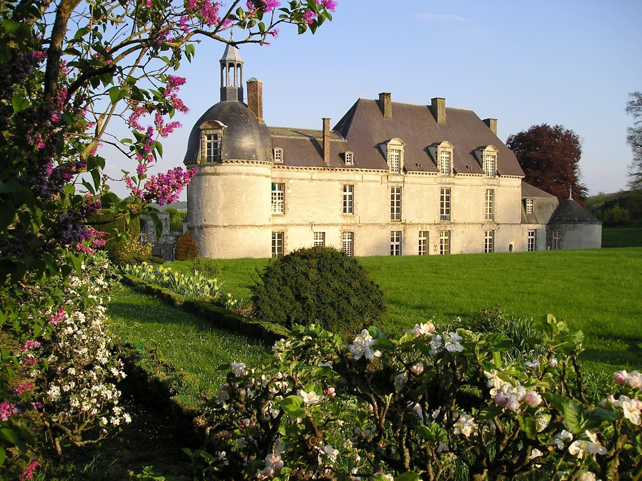 Chateau d'Etoges from the park, Hotel, restaurant & spa